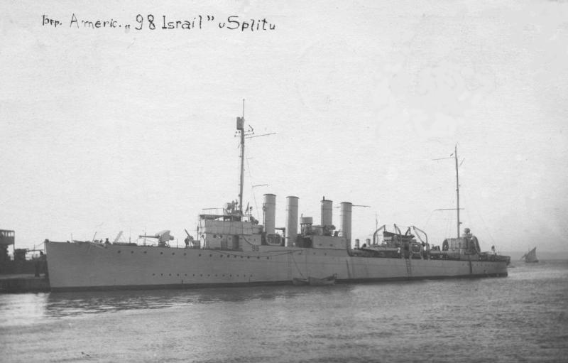 The U.S. Navy destroyer USS Israel (DD-98) before 15 September 1919, at Split, Yugoslavia.